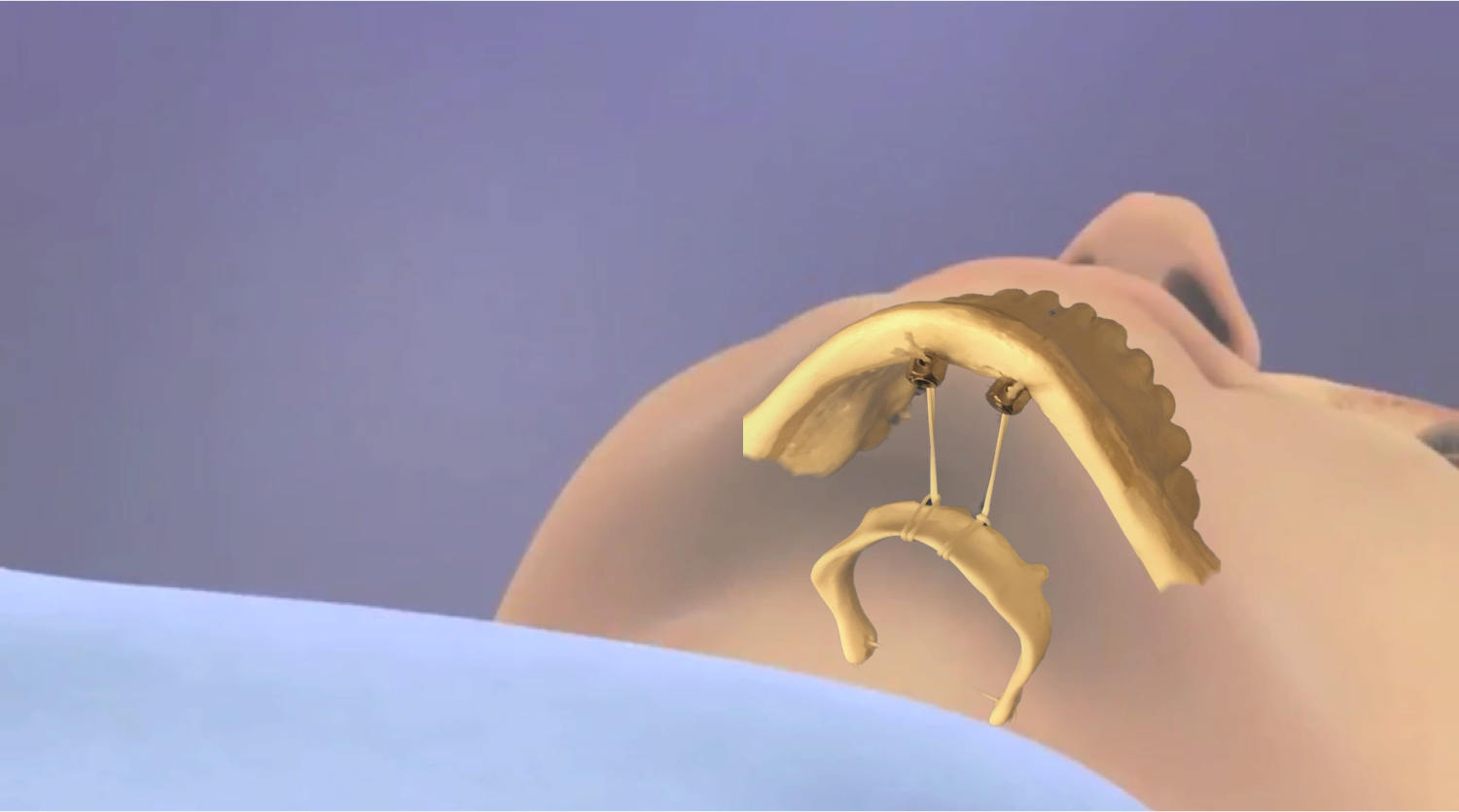 Hyoid suspension with advanced hyoid - shown using Encore hyoid system by Siesta Medical